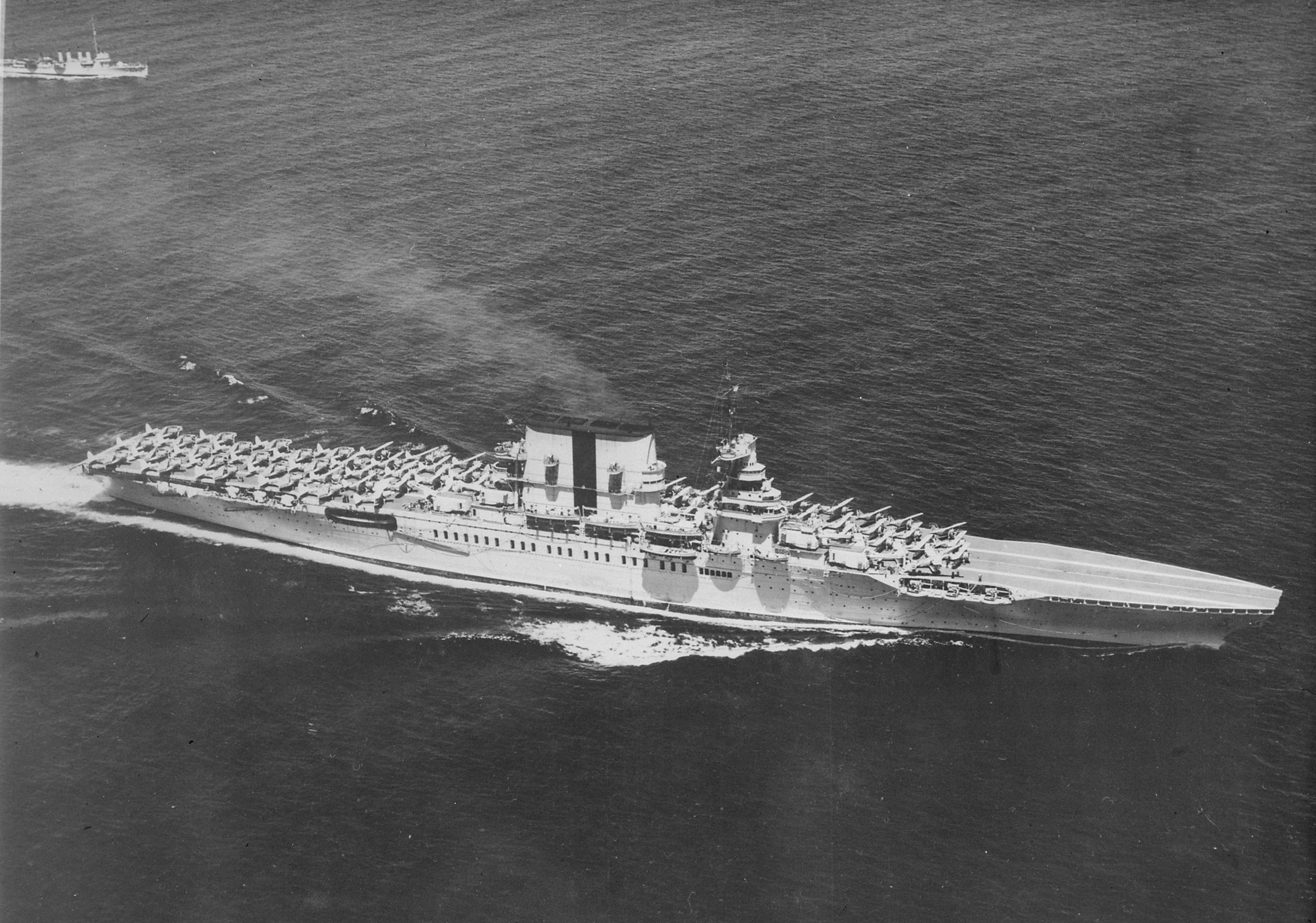 The aircraft of the U.S. Navy aircraft carrier USS Saratoga (CV-3) aircraft prepare to take off during a Presidential Review by President Roosevelt, off New York City, on 31 May 1934. As President Roosevelt watched from the heavy cruiser USS Indianapolis (CA-35), 90 ships passed by, led by the battelship USS Pennsylvania (BB-38) flying the 4-star flag of Admiral Sellers. Note one of Saratoga´s two flush-deck destroyer plane guards (upper left corner).